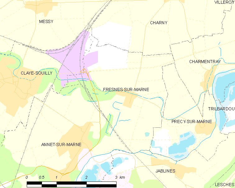 Map of French municipality Fresnes-sur-Marne